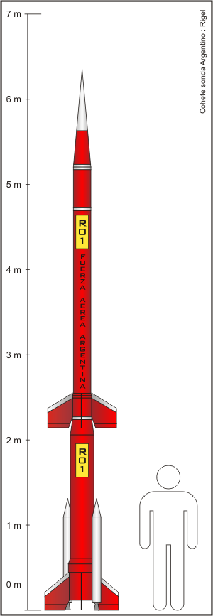 Argentine sounding rocket Rigel